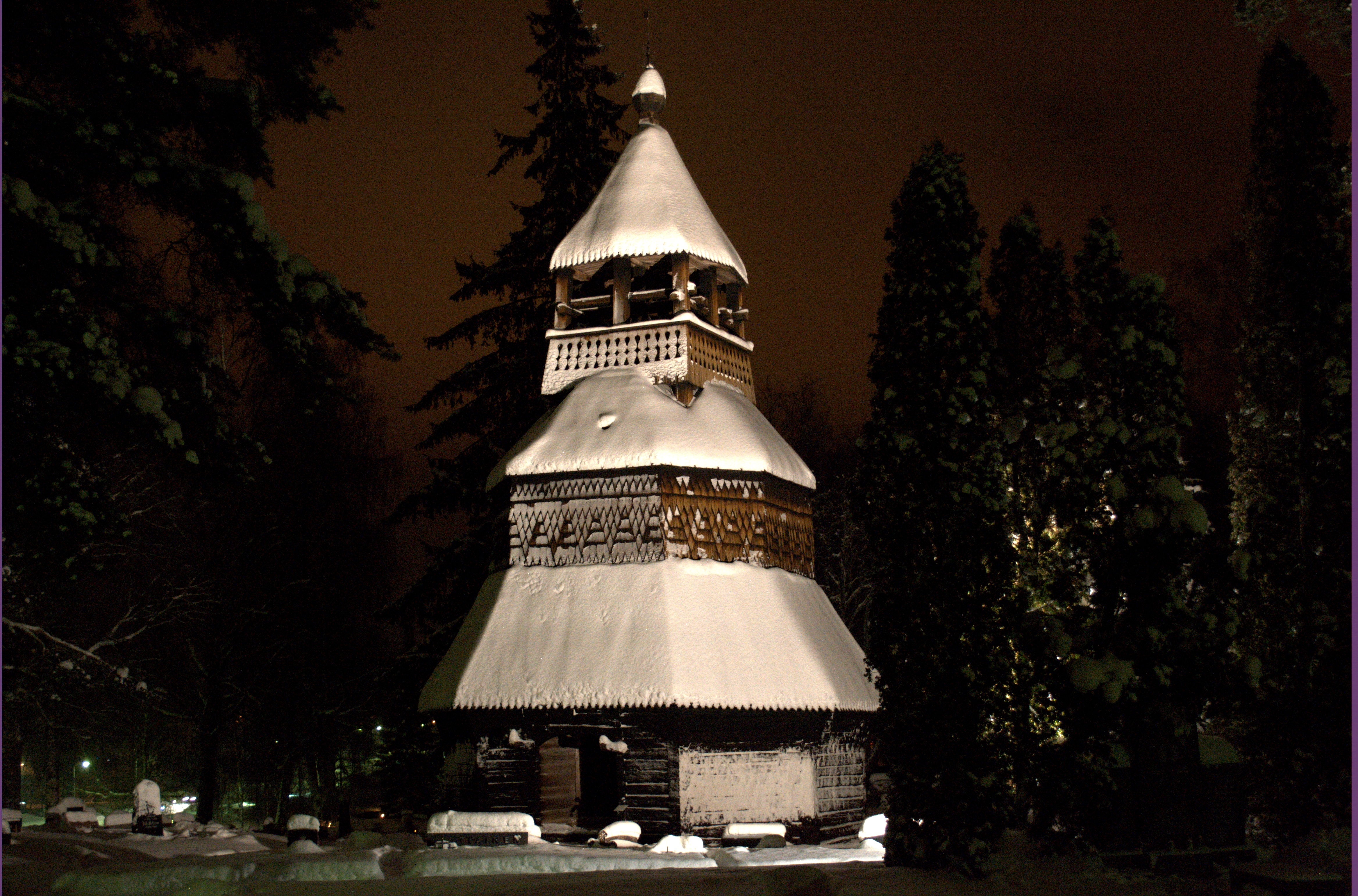 Ruokolahti bell tower in Finland